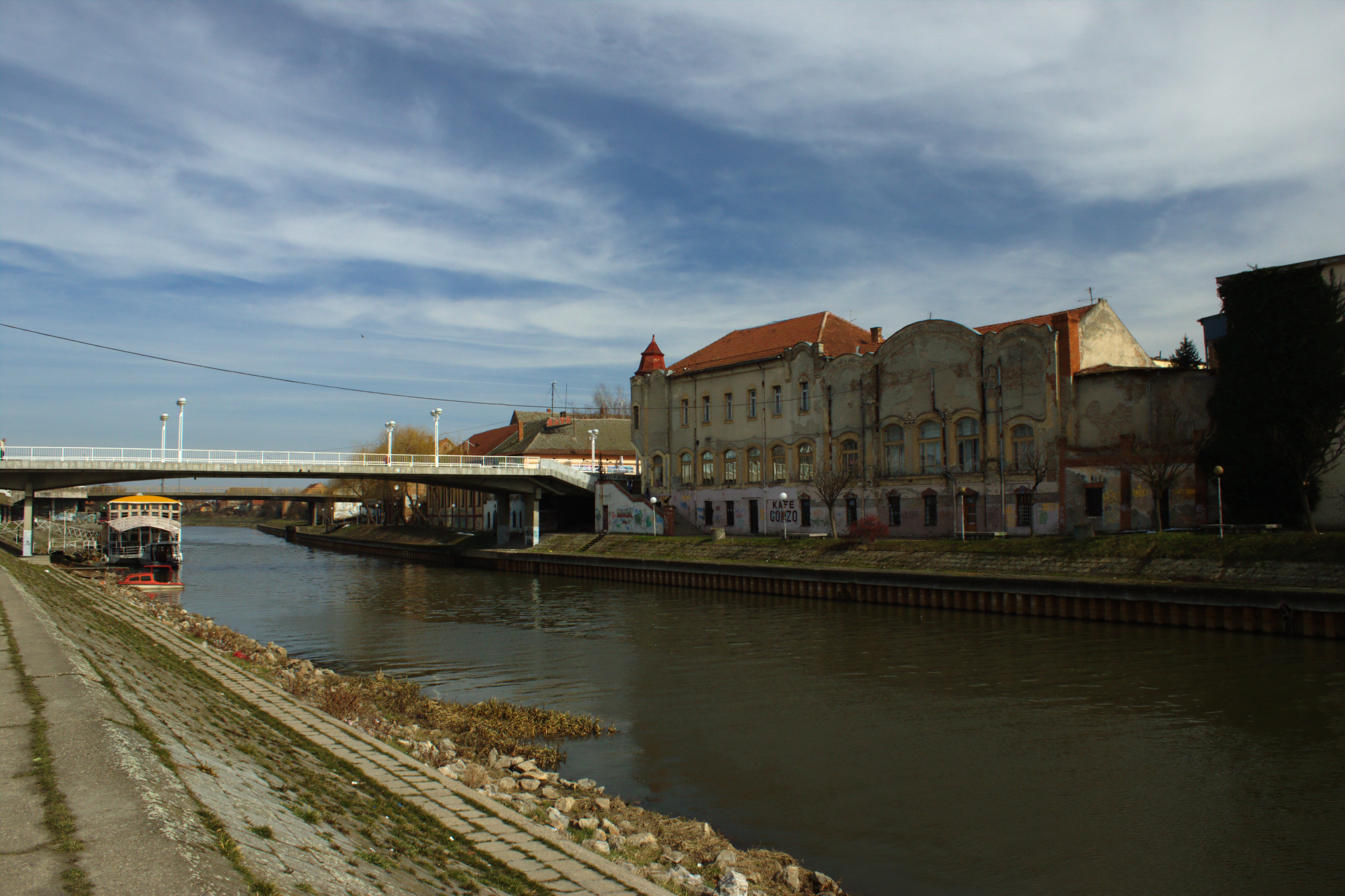 Begej River in the town of Zrenjanin, Serbia. A bridge connecting the town centre with surrounding area and antifascist memorial can be seen in the distance